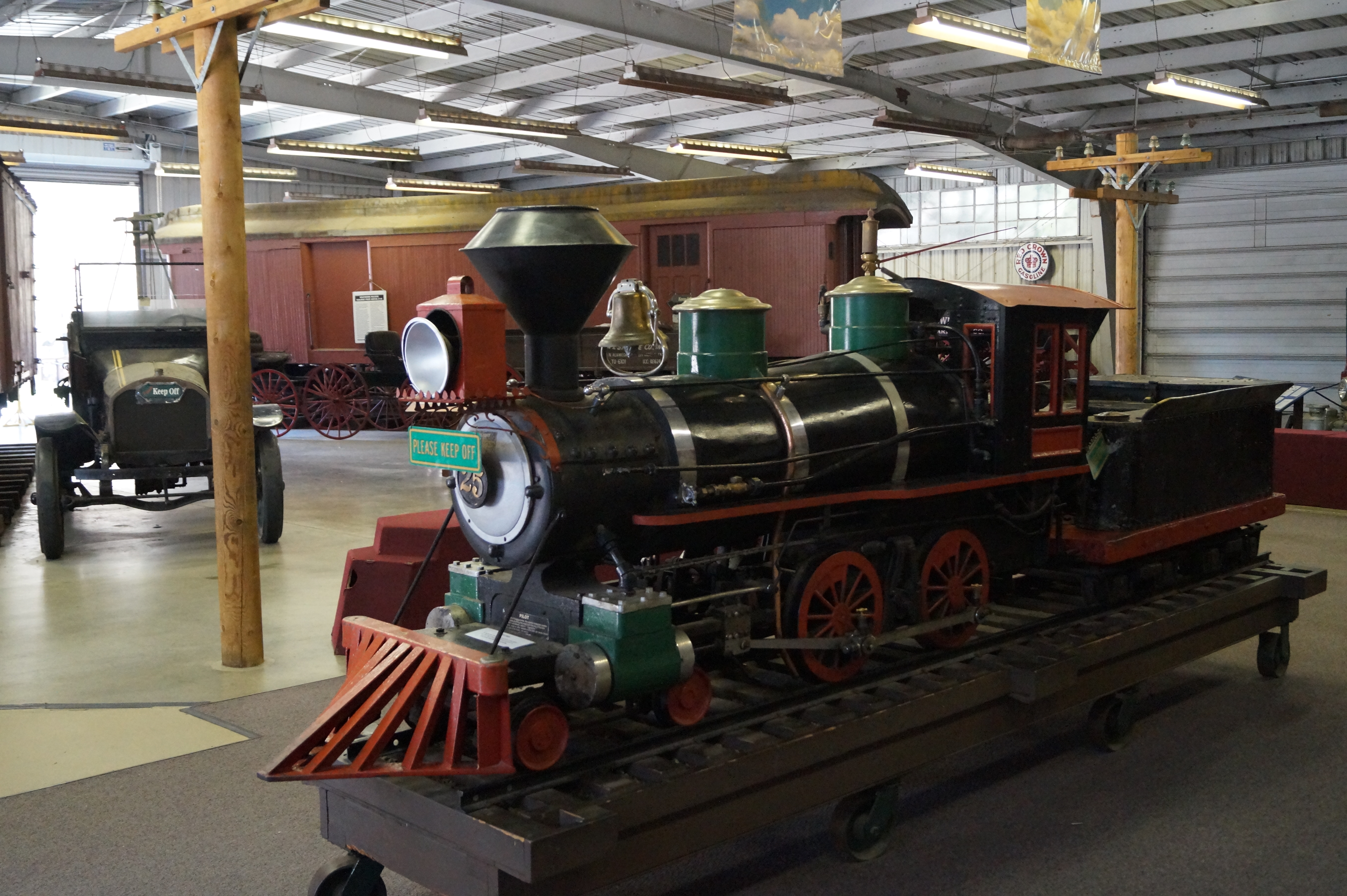 Travel Town Museum is a transport museum dedicated in the northwest corner of Los Angeles, California's Griffith Park. The history of railroad transportation in the western United States from 1880 to the 1930s is the primary focus of the museum's collection, with an emphasis on railroading in Southern California and the Los Angeles area.